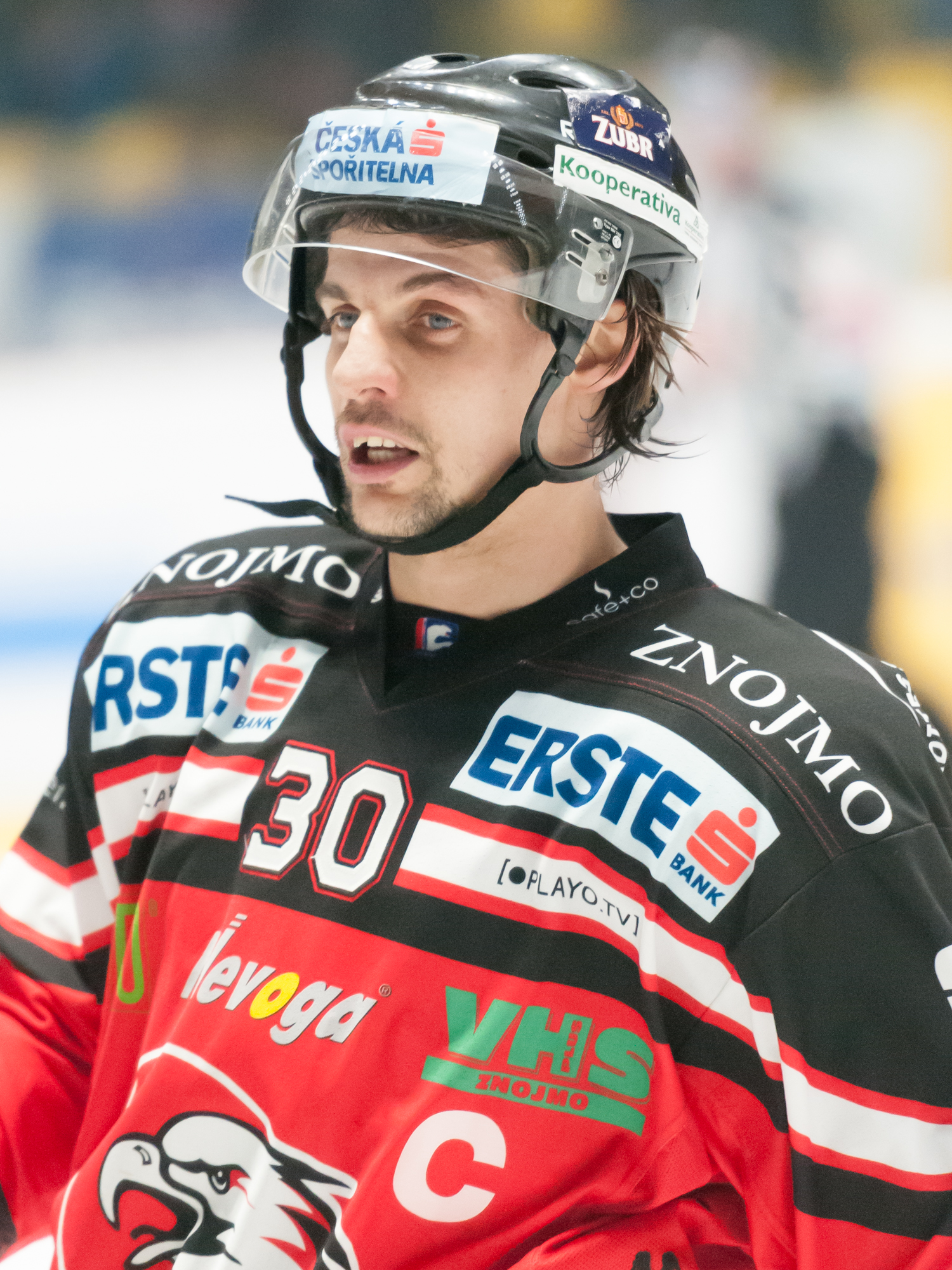 EBEL Orli Znojmo vs. HC Bolzano 2016-02-05